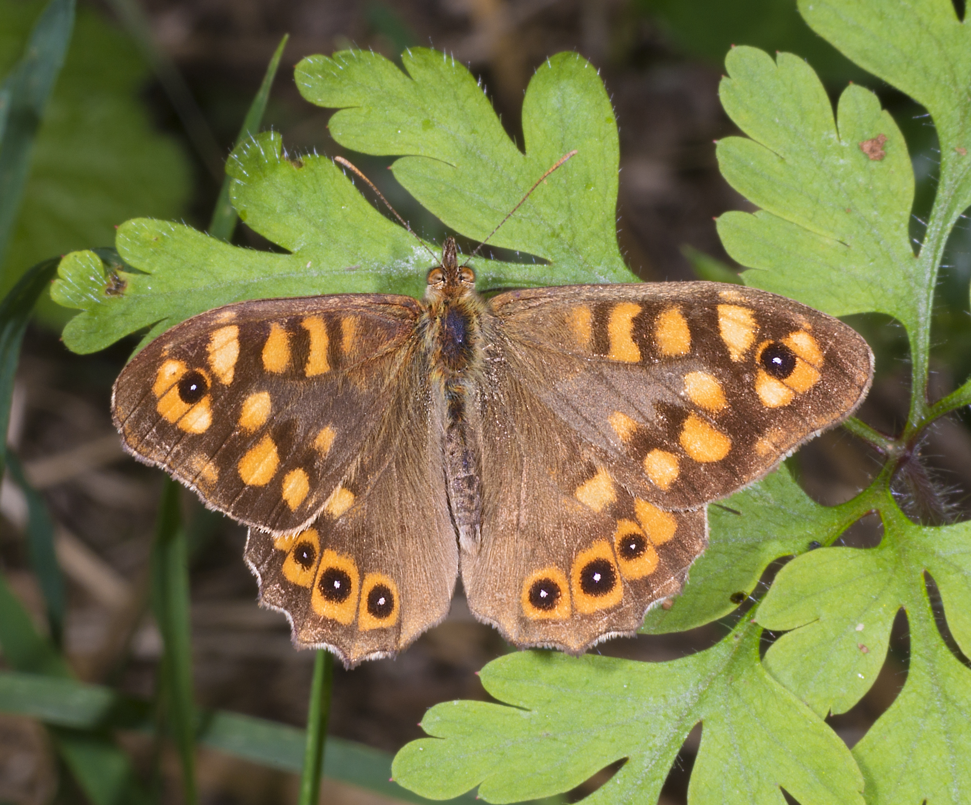 Speckled Wood. Dosal view.